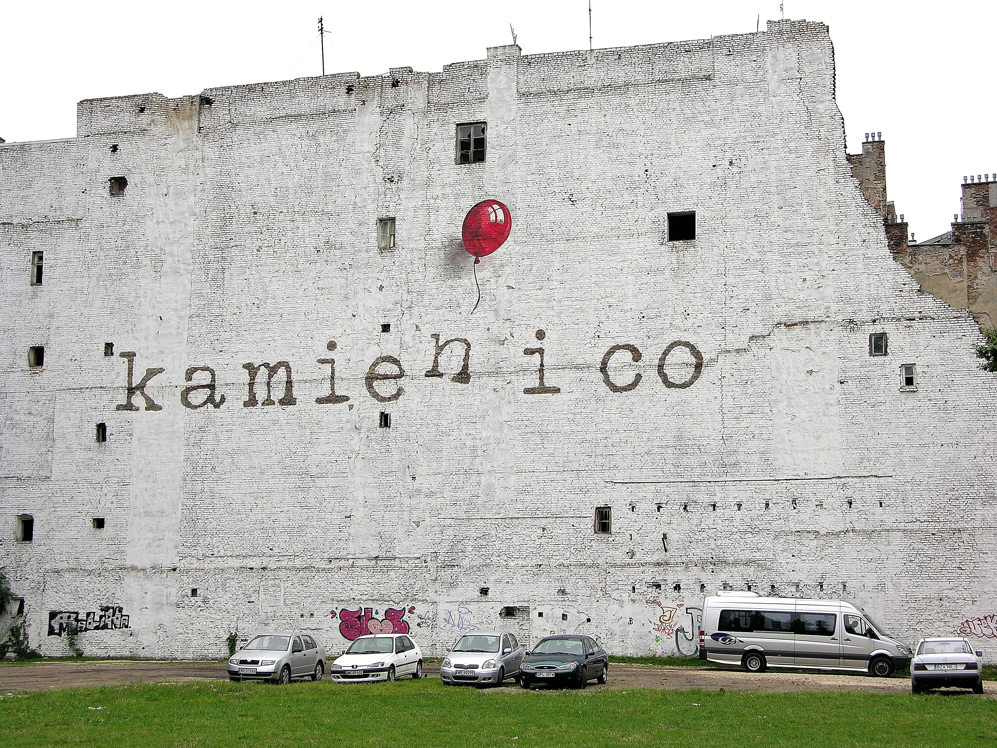 "Kamień i co" mural at 14 Waliców Street in Warsaw